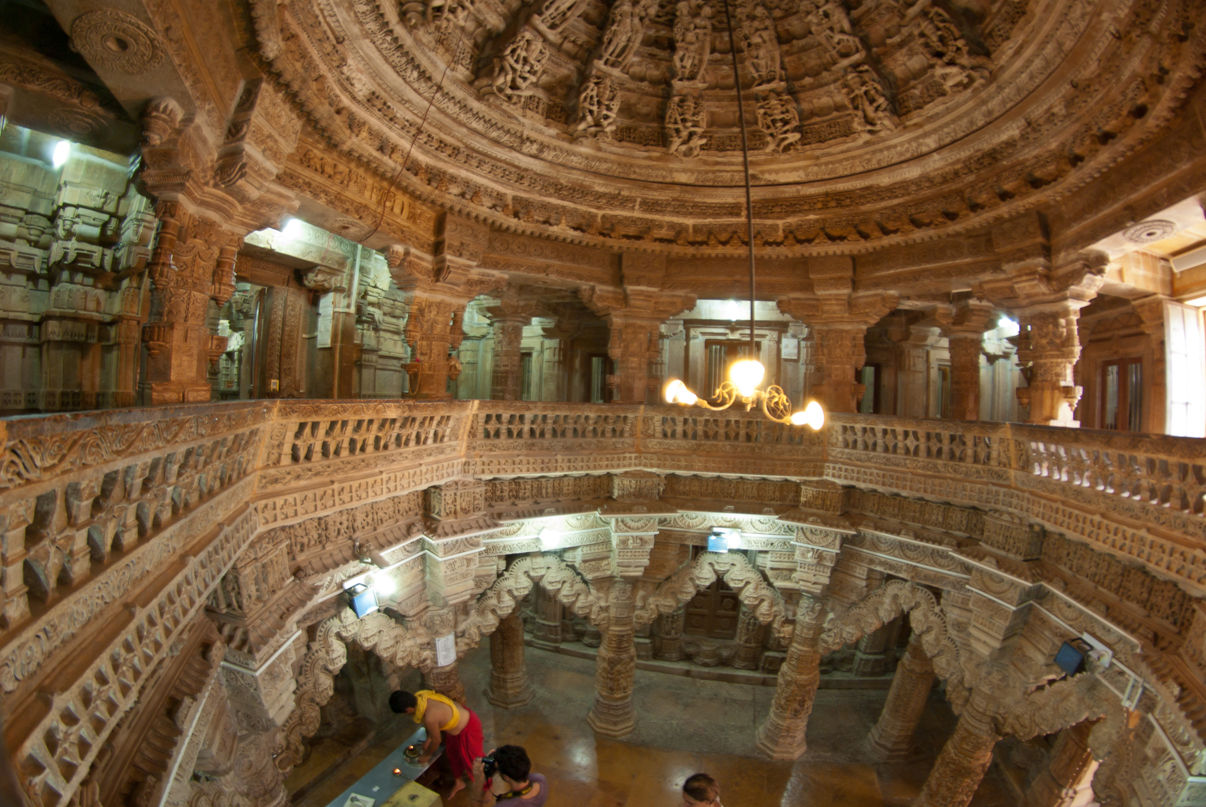 Interior of Jaisalmer Jain Temple